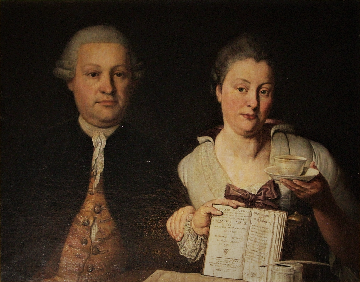 "Leopold Auenbrugger with his wife Marianne", a work of an unknown Austrian painter of the second half of the XVIII Century. It is displayed in one of the rooms of the Donazione Putti inside the Istituto Ortopedico Rizzoli, Bologna.